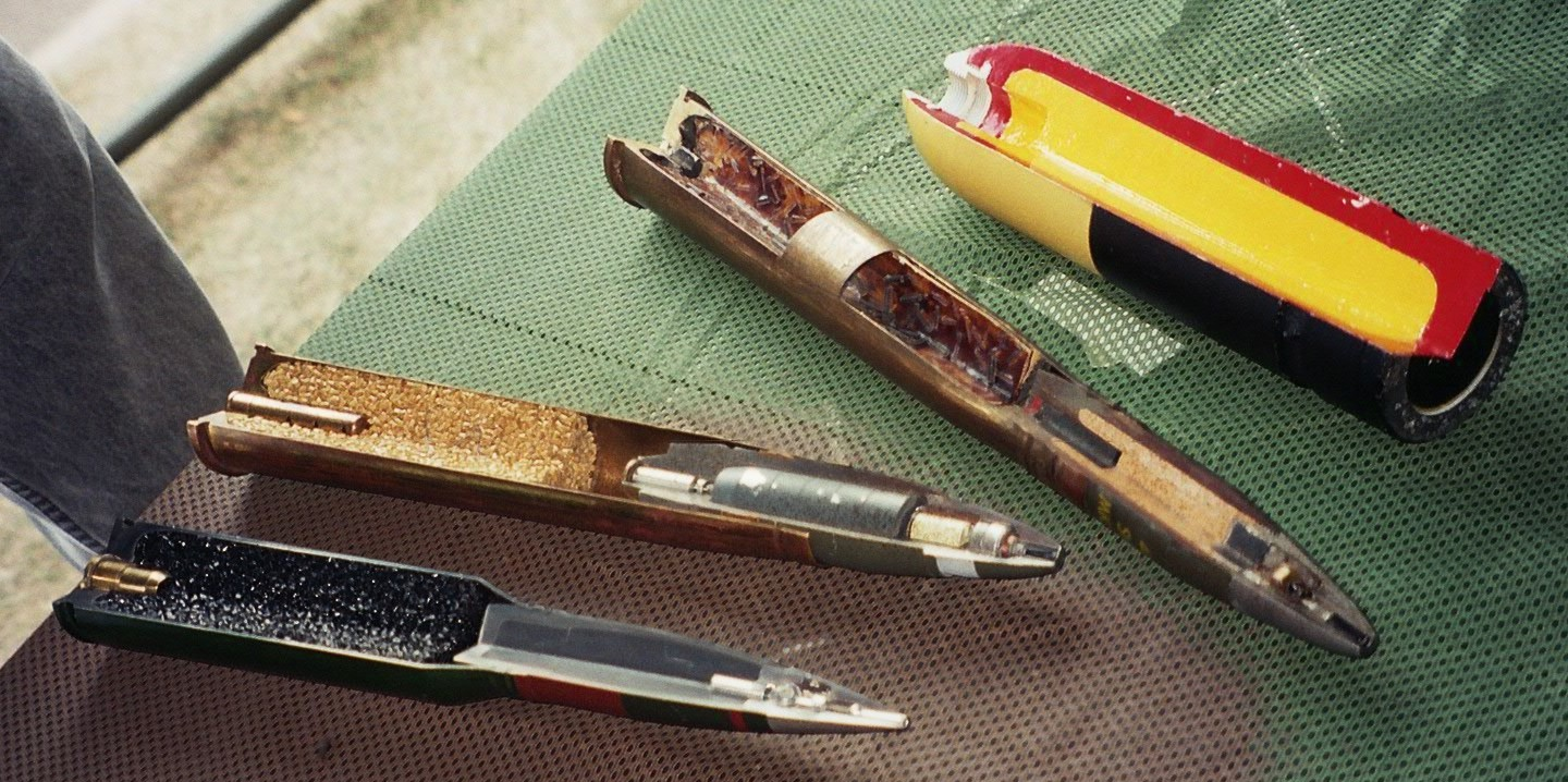 Nation/Defense days, Esplanade des Invalides, Paris, France, September 24-25, 2005